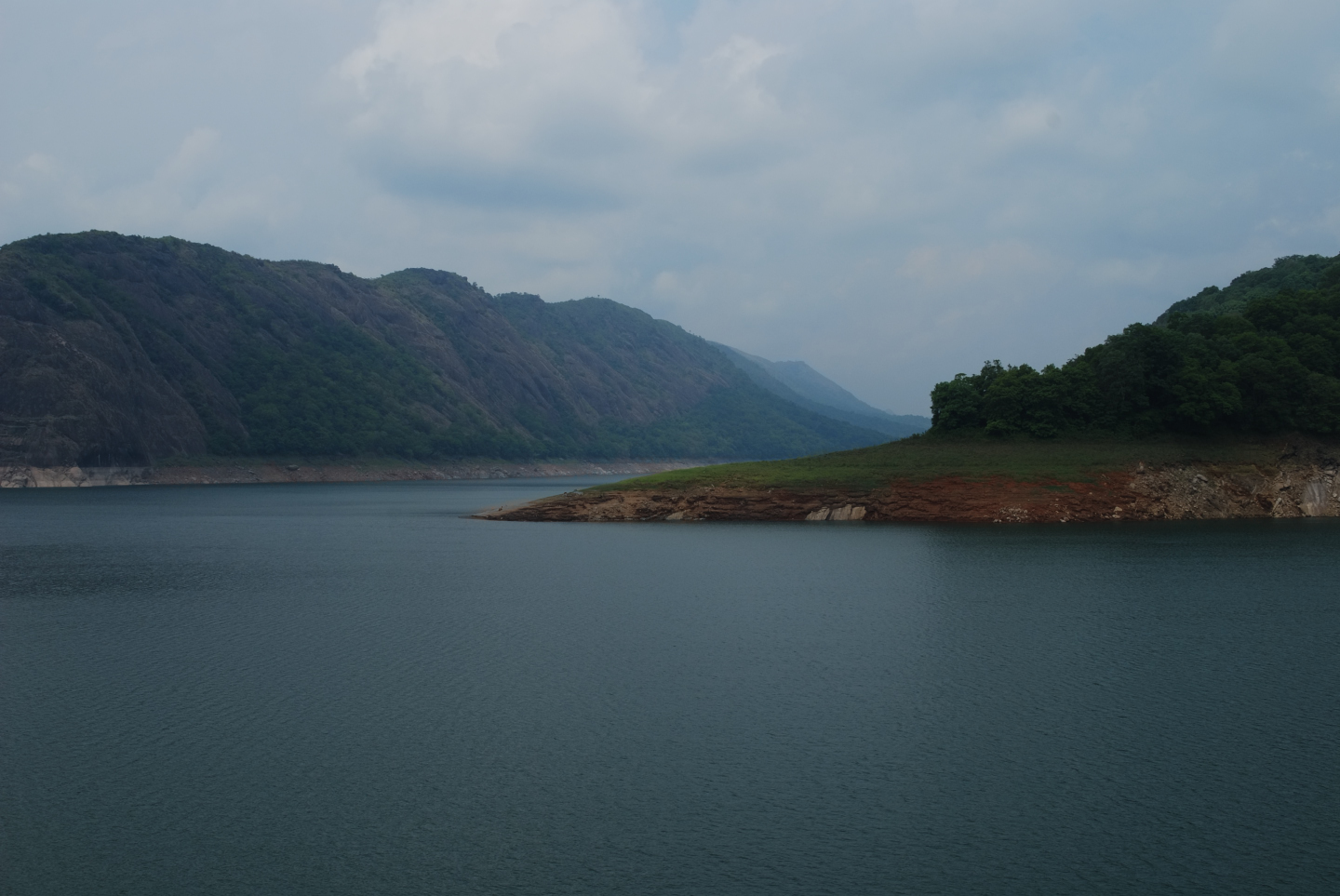 A view of Idukki Dam Reservoir